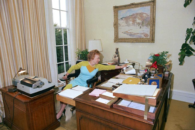 Rose Mary Woods (1917-2005), Richard Nixon's secretary.